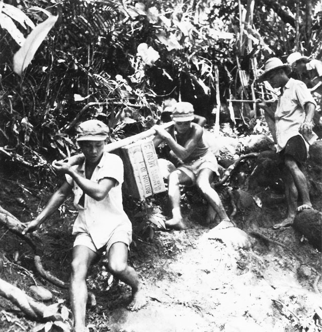 Filipino volunteers carry supplies into the mountains to reach 1st Cavalry Division troops in the battle of Leyte.From the National Archives via . Downloaded from [1]